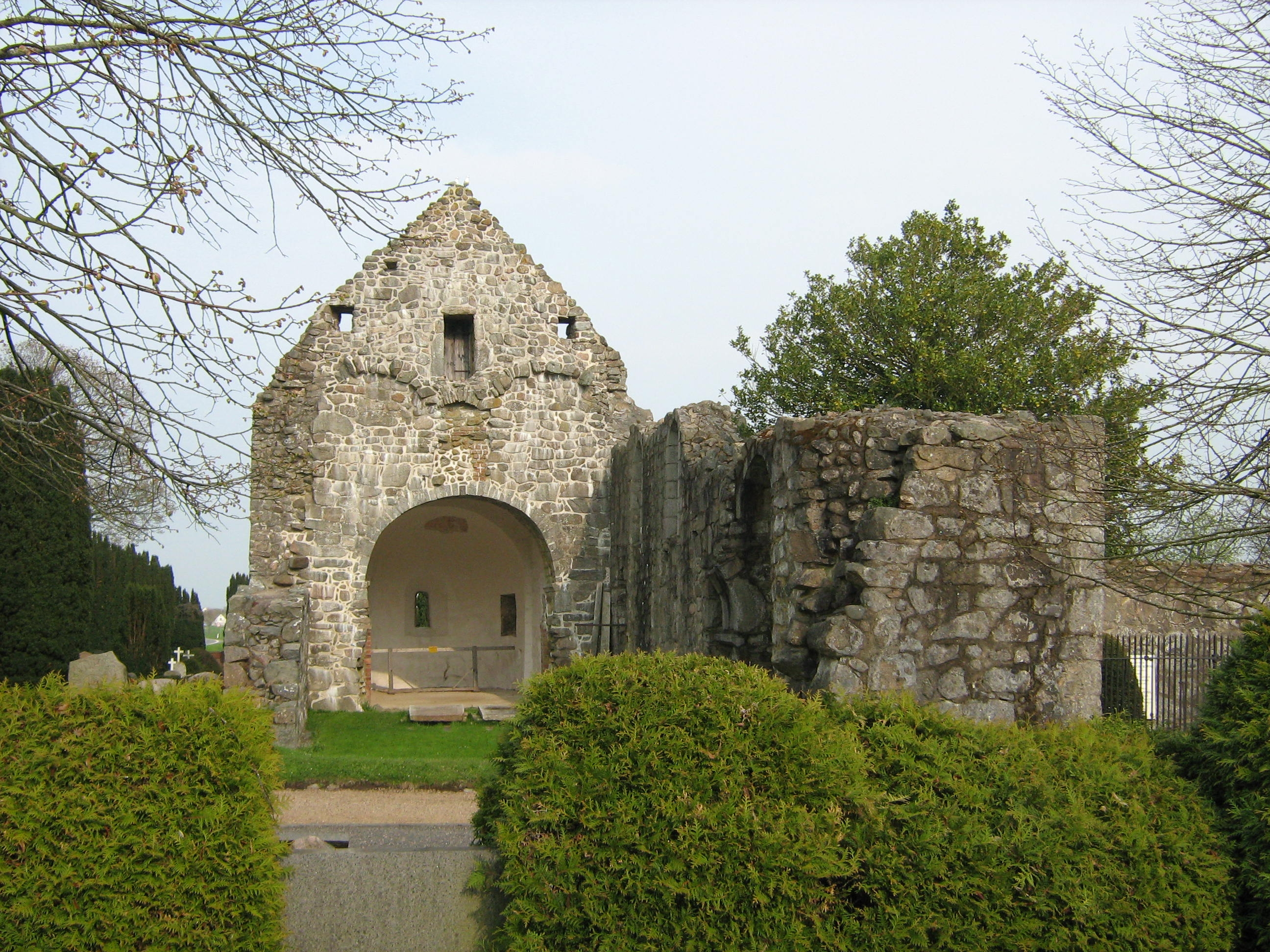 Ruin of old church, Østermarie, Bornholm, Denmark